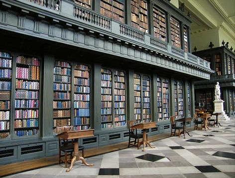 The Great Library of All Souls College, Oxford